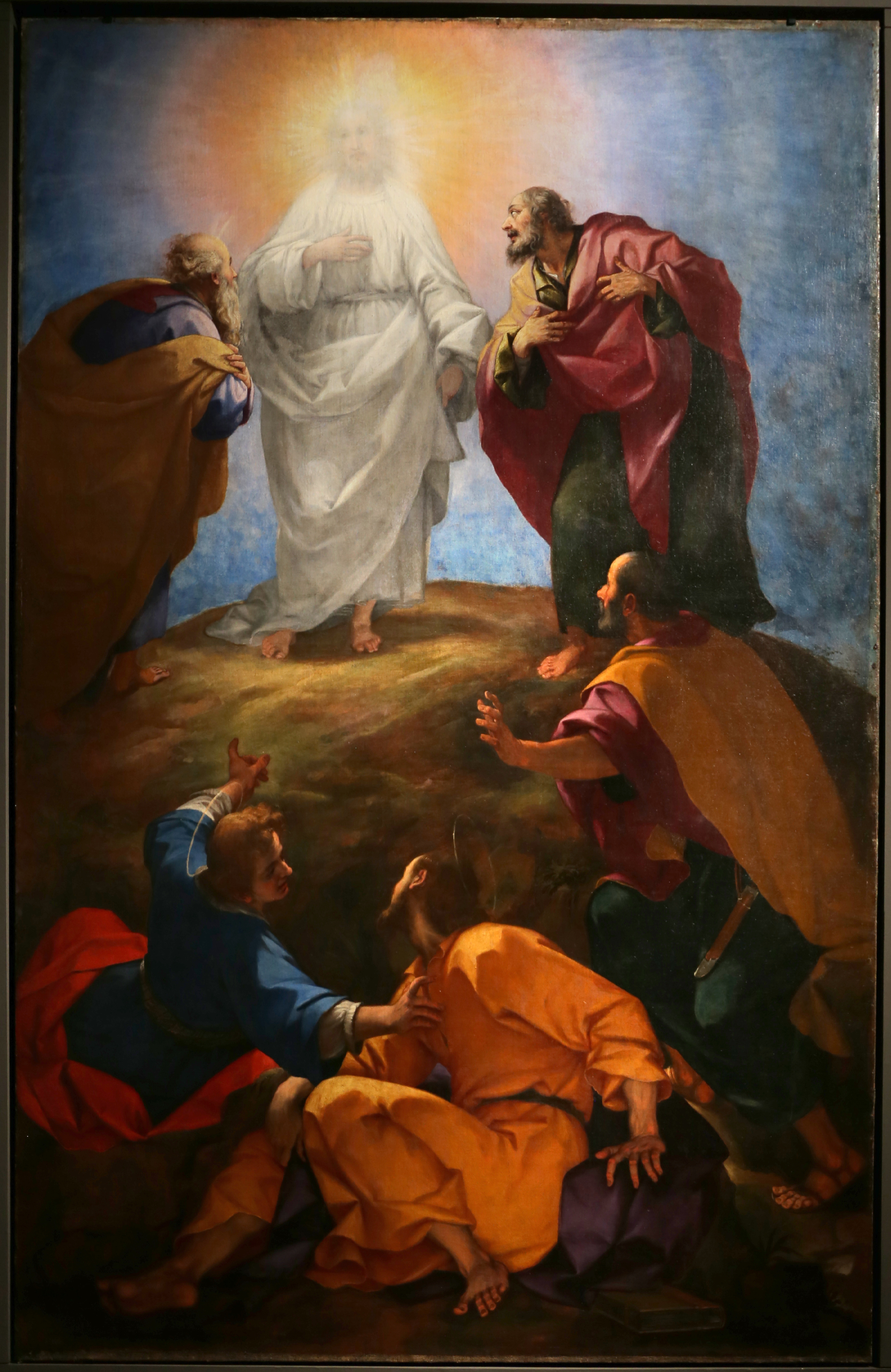 Trasfiguration by Giovanni Battista Paggi